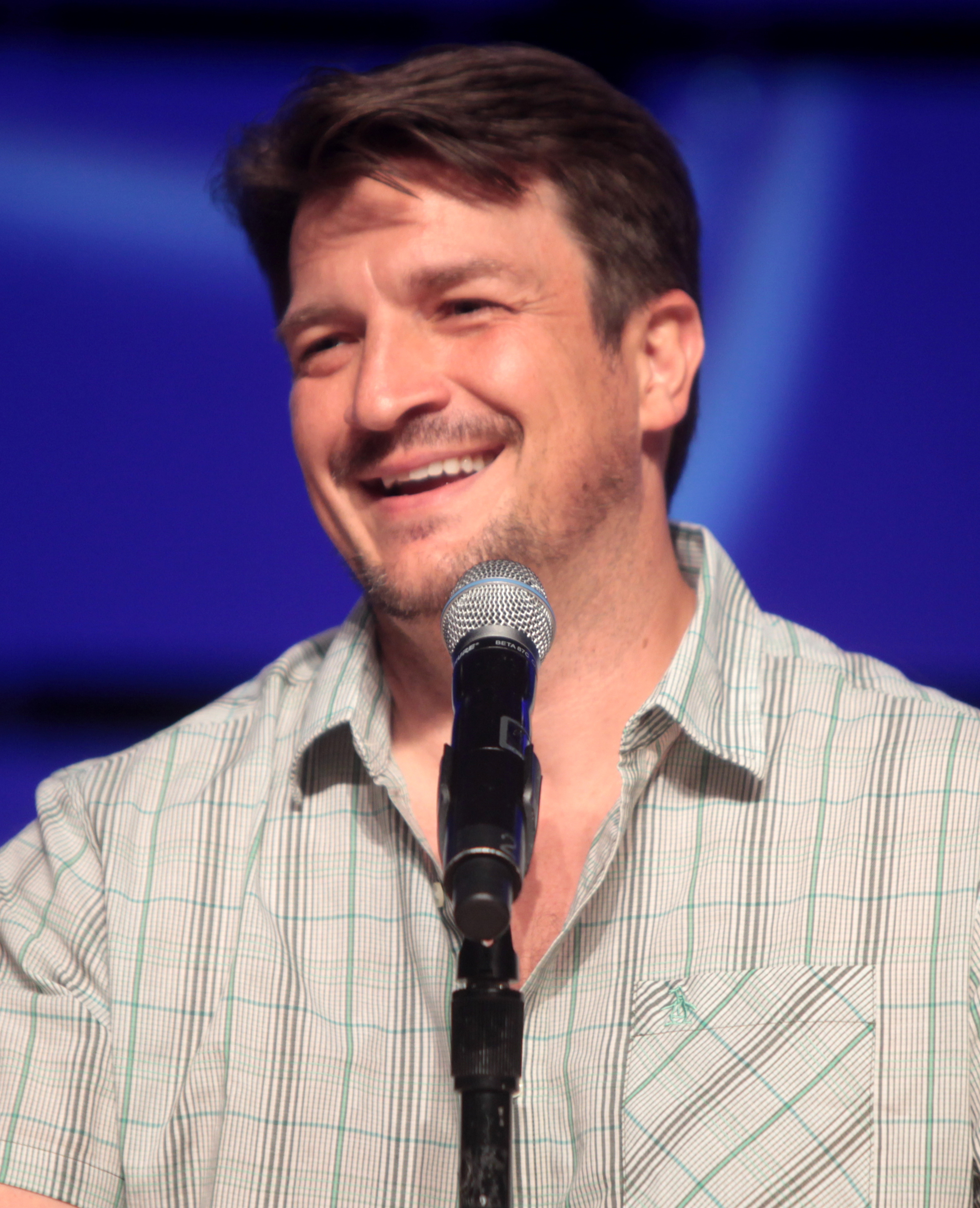 Nathan Fillion speaking at the 2014 Phoenix Comicon on June 7, 2014.